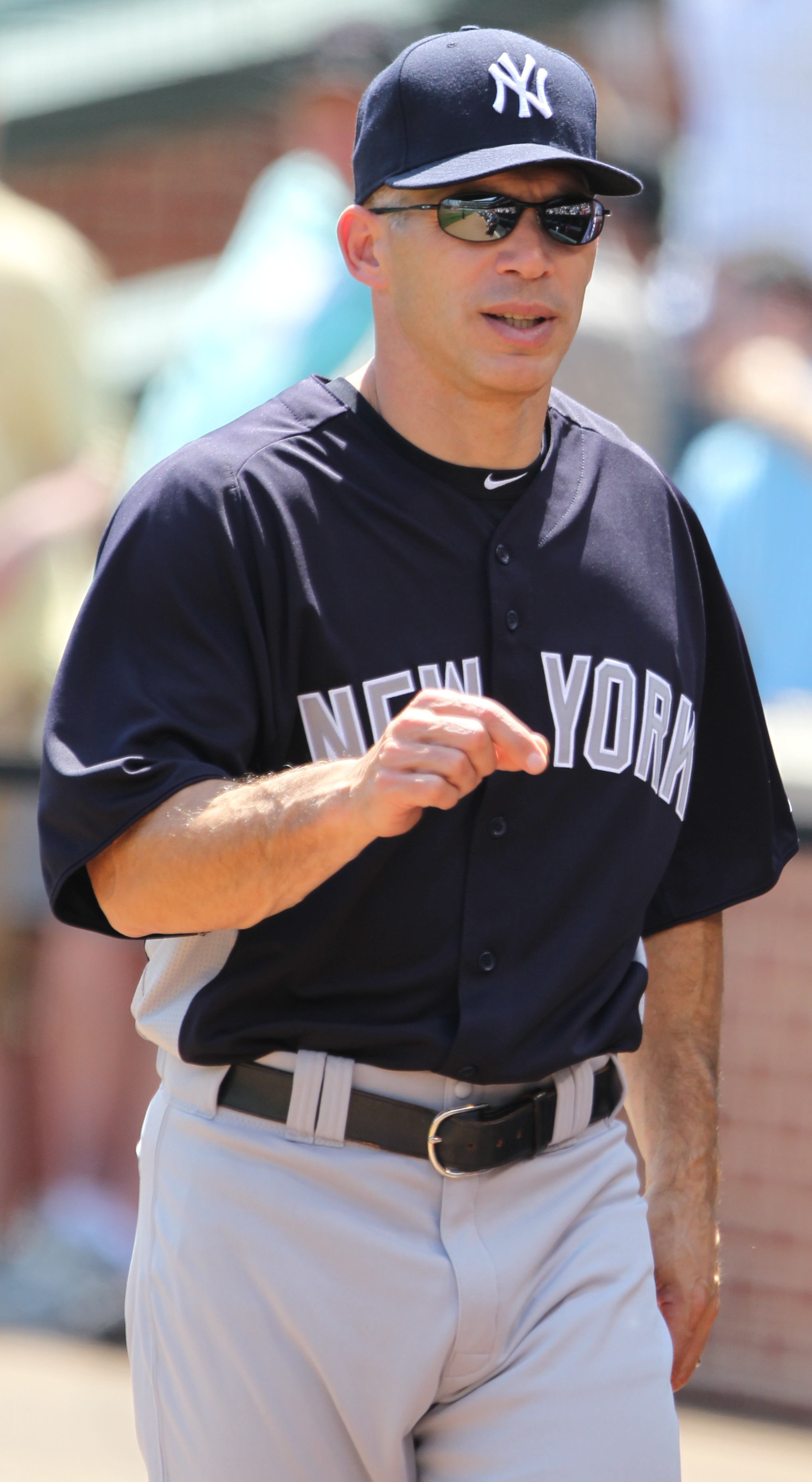 Joe Girardi, manager of the New York Yankees.